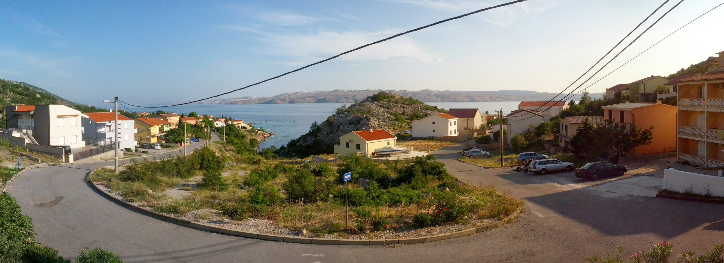 Town Ribarica, near Karlobag, Croatia.